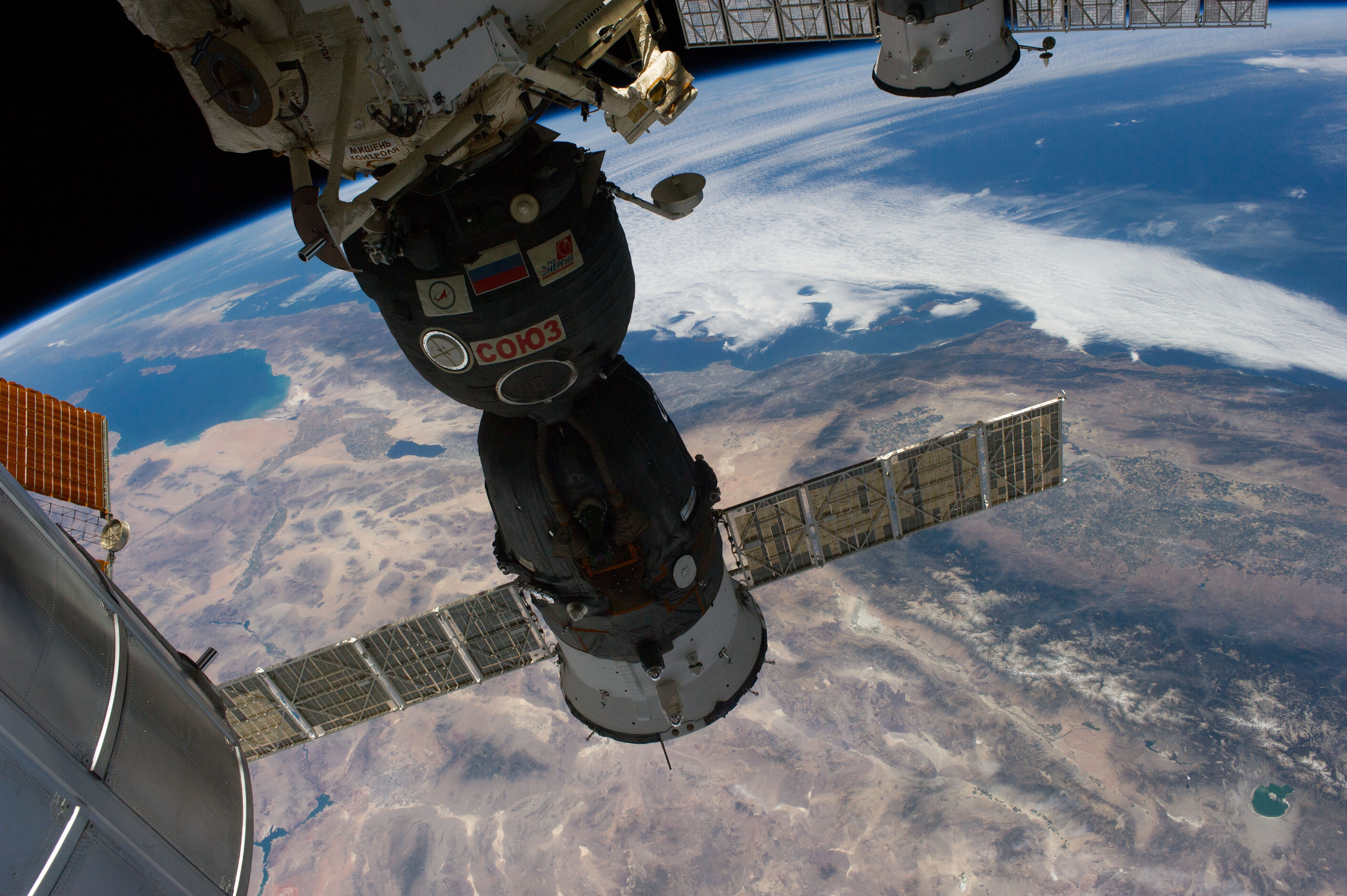 One of the Expedition 40 crew members aboard the International Space Station recorded this image showing several states in the USA and a small part of Mexico, including Baja California, on June 23, 2014. Parts of Nevada are visible in the bottom of the frame. The area in the Mojave Desert where many space shuttle missions successfully ended is visible near the scene's center. The Gulf of Cortez and several hundred miles of the Pacific coast line of Mexico and California are visible in the top portion of the photo. The heavily populated Los Angeles Basin is just above the Mojave site of shuttle landings, with the San Diego area partially obscured by the docked Russian Soyuz vehicle in the foreground. The Salton Sea is just above left center frame.